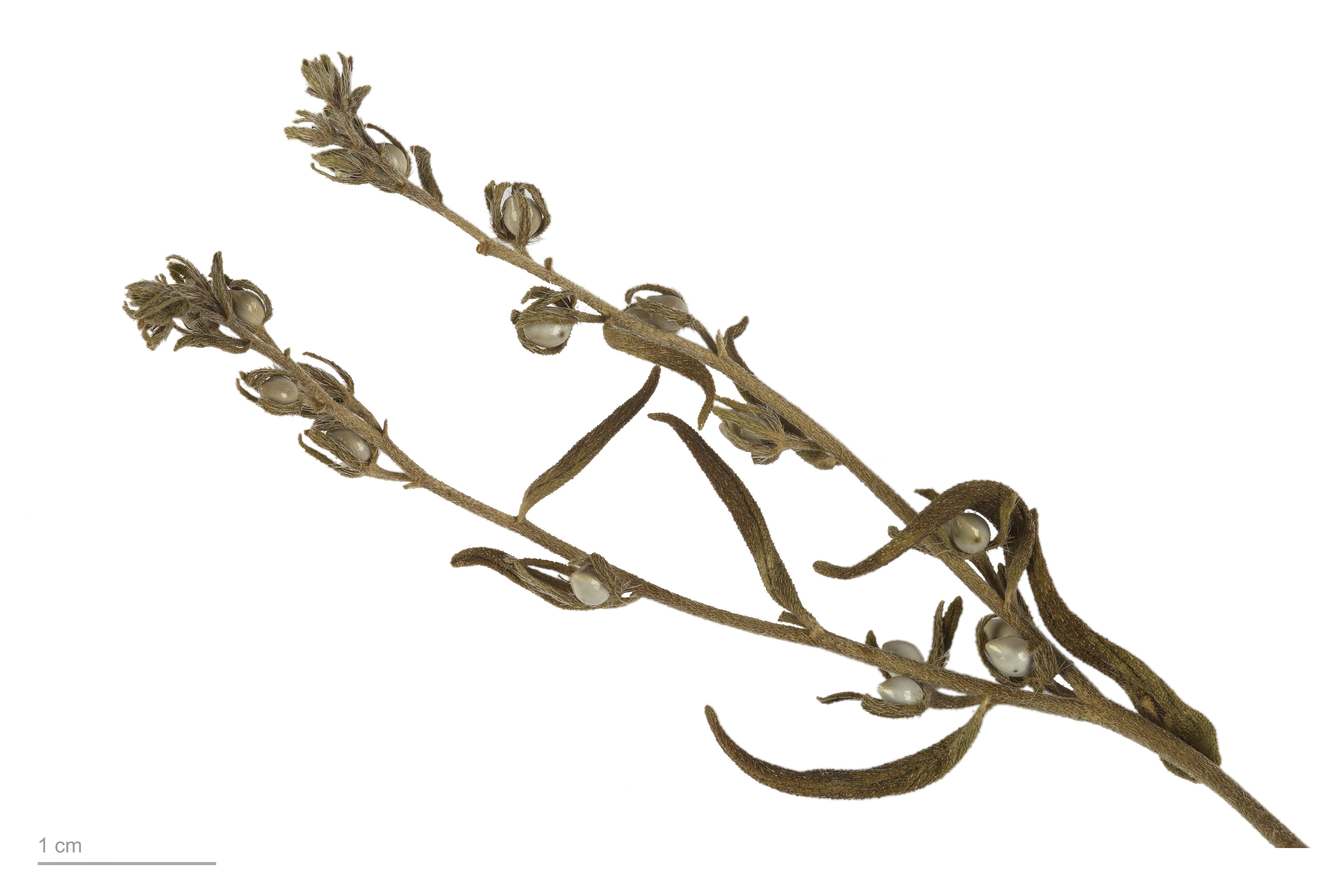 Common Gromwell , fruits and seeds